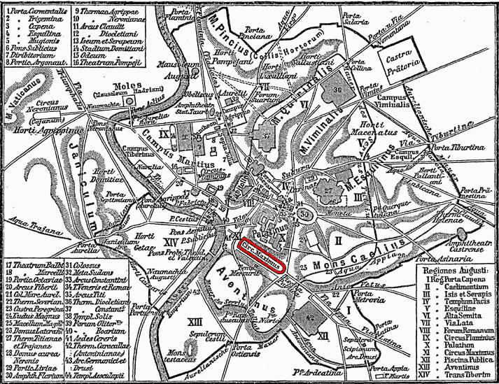 Map of Rome, with location of Circus Maximus, in red. Personnal work